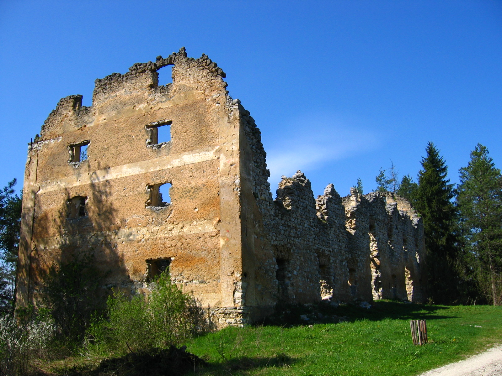 Slunj, Croatia. Warehouse from Napoleonic times. Picture taken in April 2006.